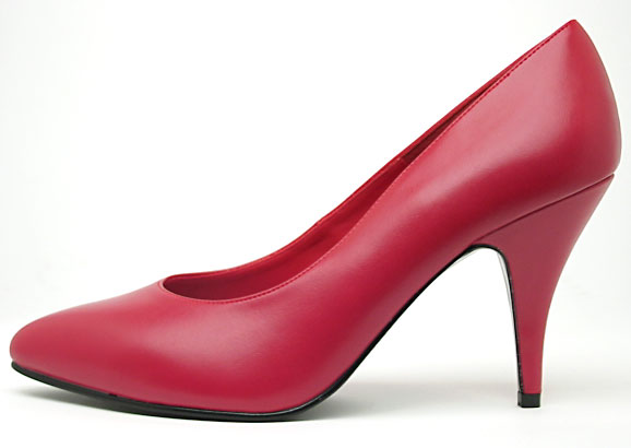 Red High Heel Pumps